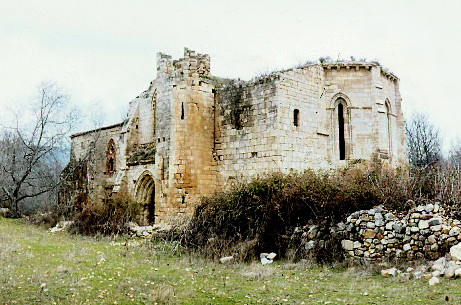 Ruins of Bonaval Monastery. Retiendas, Guadalajara, Castile-La Mancha, Spain